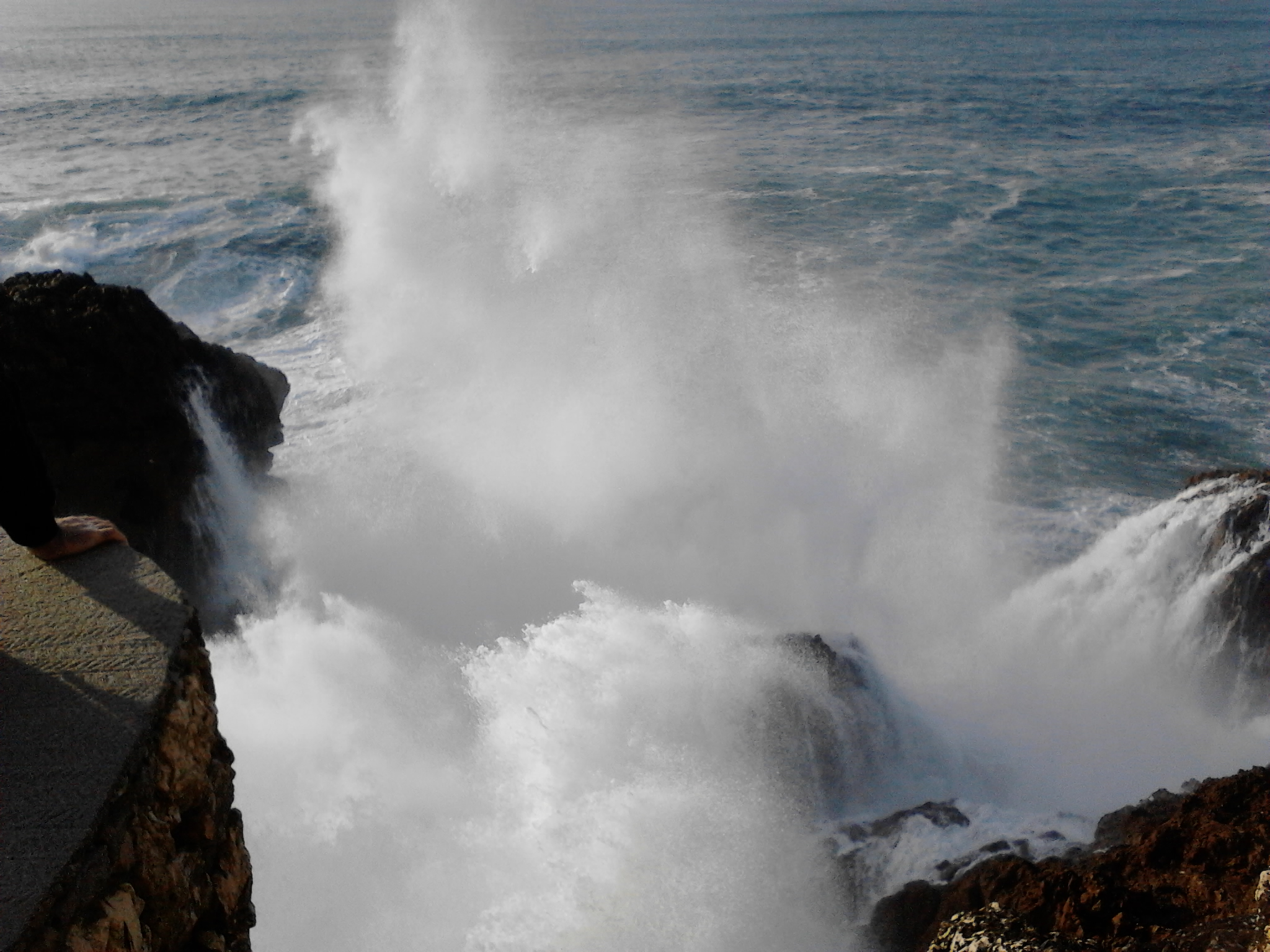 The sea crashing into the rocks